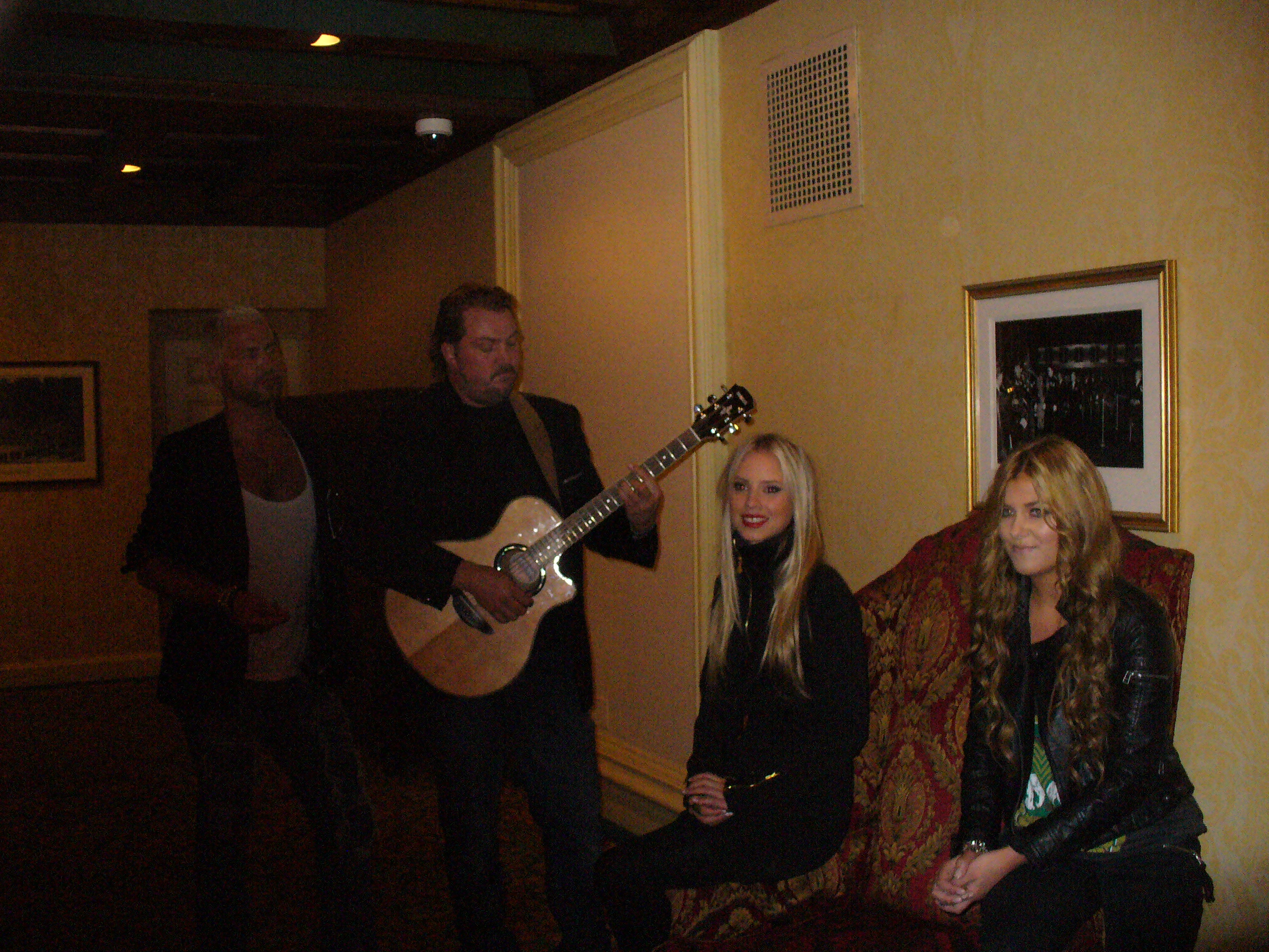 Ace Of Base performing during a fan meeting in Toronto, Canada.